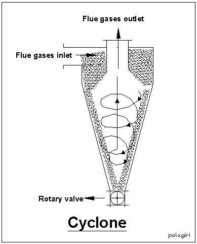 dust collecting cyclone